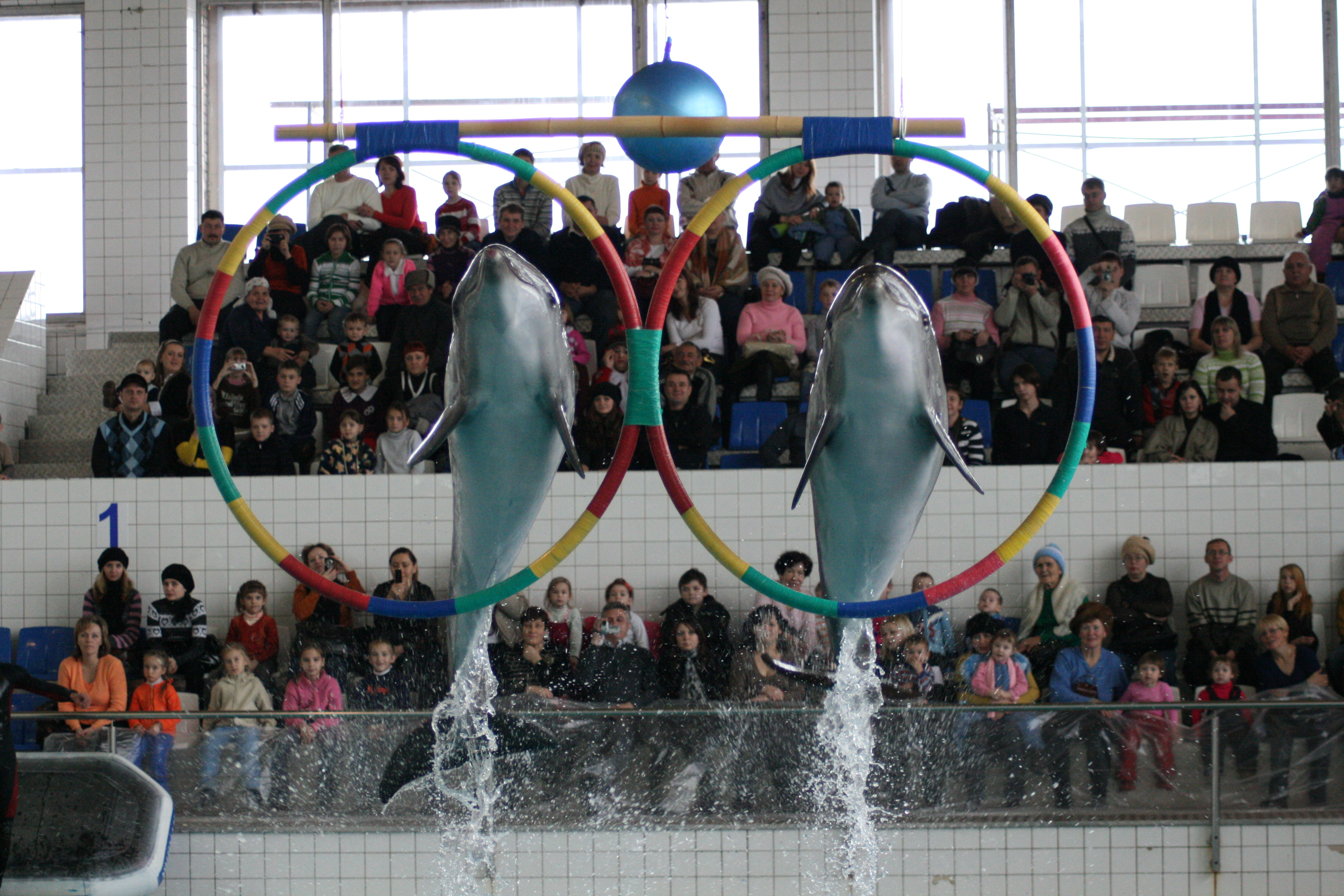 Jump of dolphins